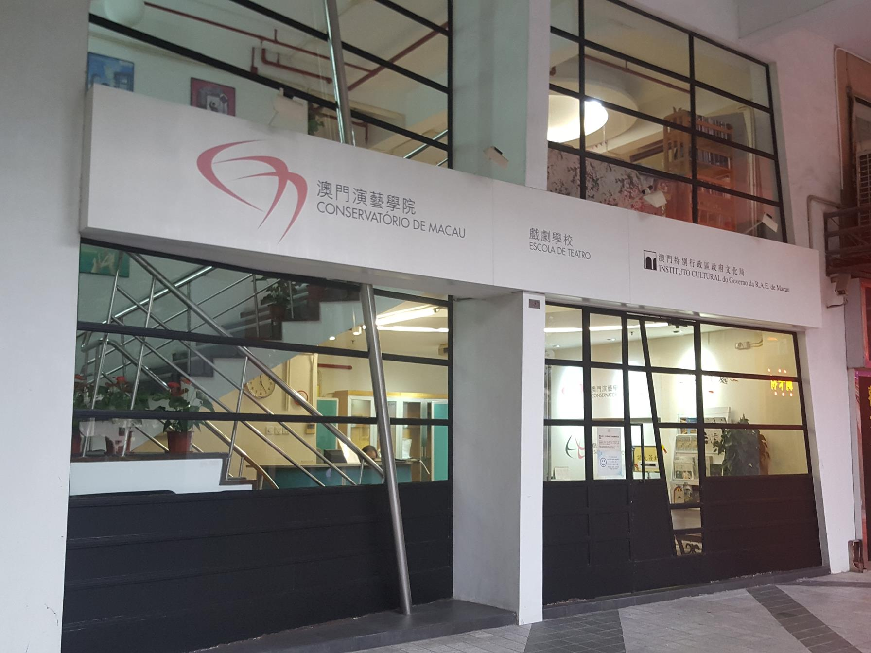 School of Theatre, Macao Conservatory